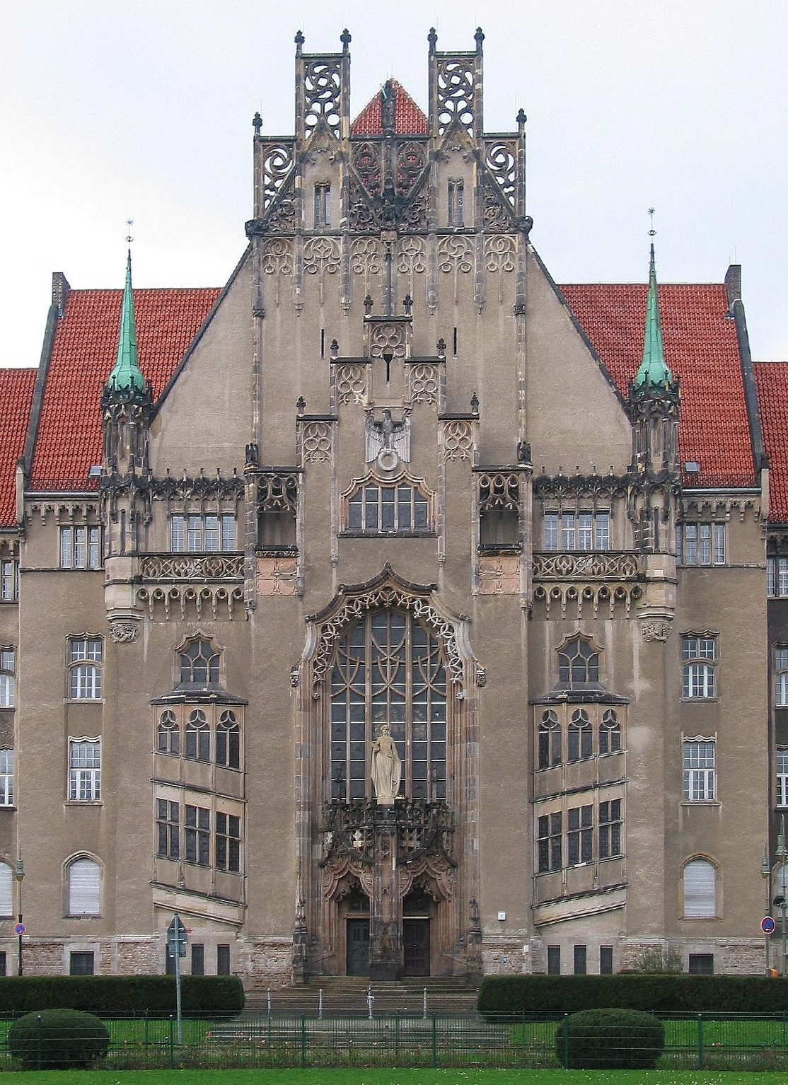 The courthouse Wedding"